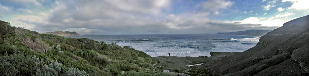 South Cape Bay, Tasmania, facing southwest, on the South Coast walking track. The bay is bounded by South East Cape on the left and South Cape on the right. Past the capes lies the Southern Ocean.